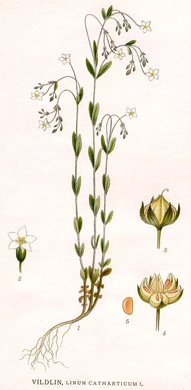 original Description Vildlin, Linum catharticum L.